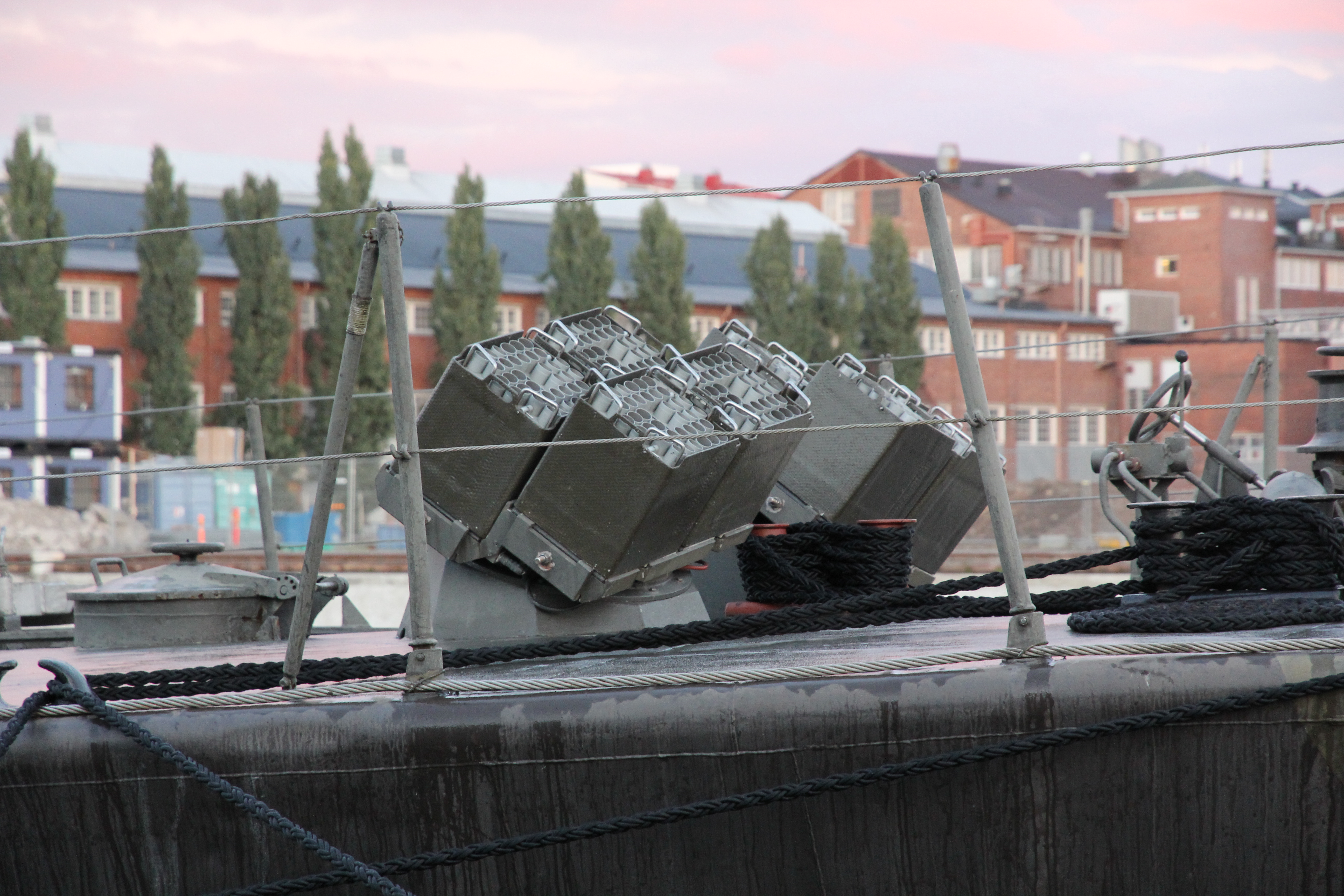 Swedish Veteranflottiljen museum missileboat Ystad (R142) photographed while visiting Forum Marinum maritime museum in Turku. Bow Philax chaff launchers.